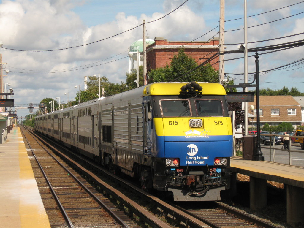 Long Island Rail Road #515 pushing Train 8054, a Ronkonkoma Branch train rerouted via the Babylon and Central Branches due to construction at Queens Interlocking.